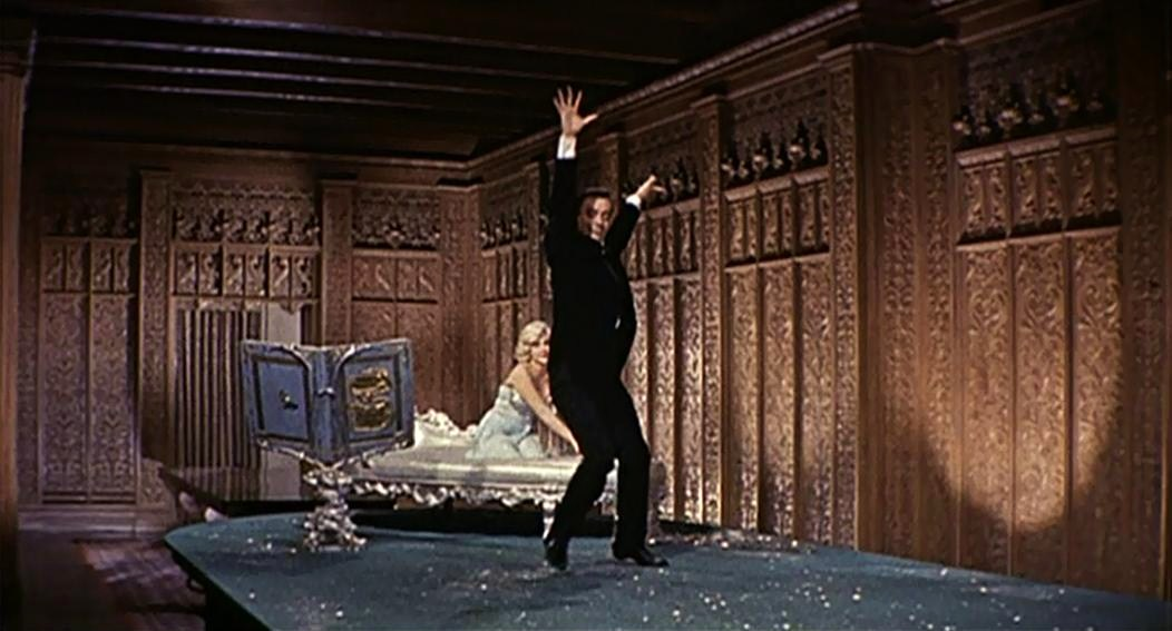 Marilyn Monroe & Yves Montand in Let's Make Love - trailer (cropped screenshot)